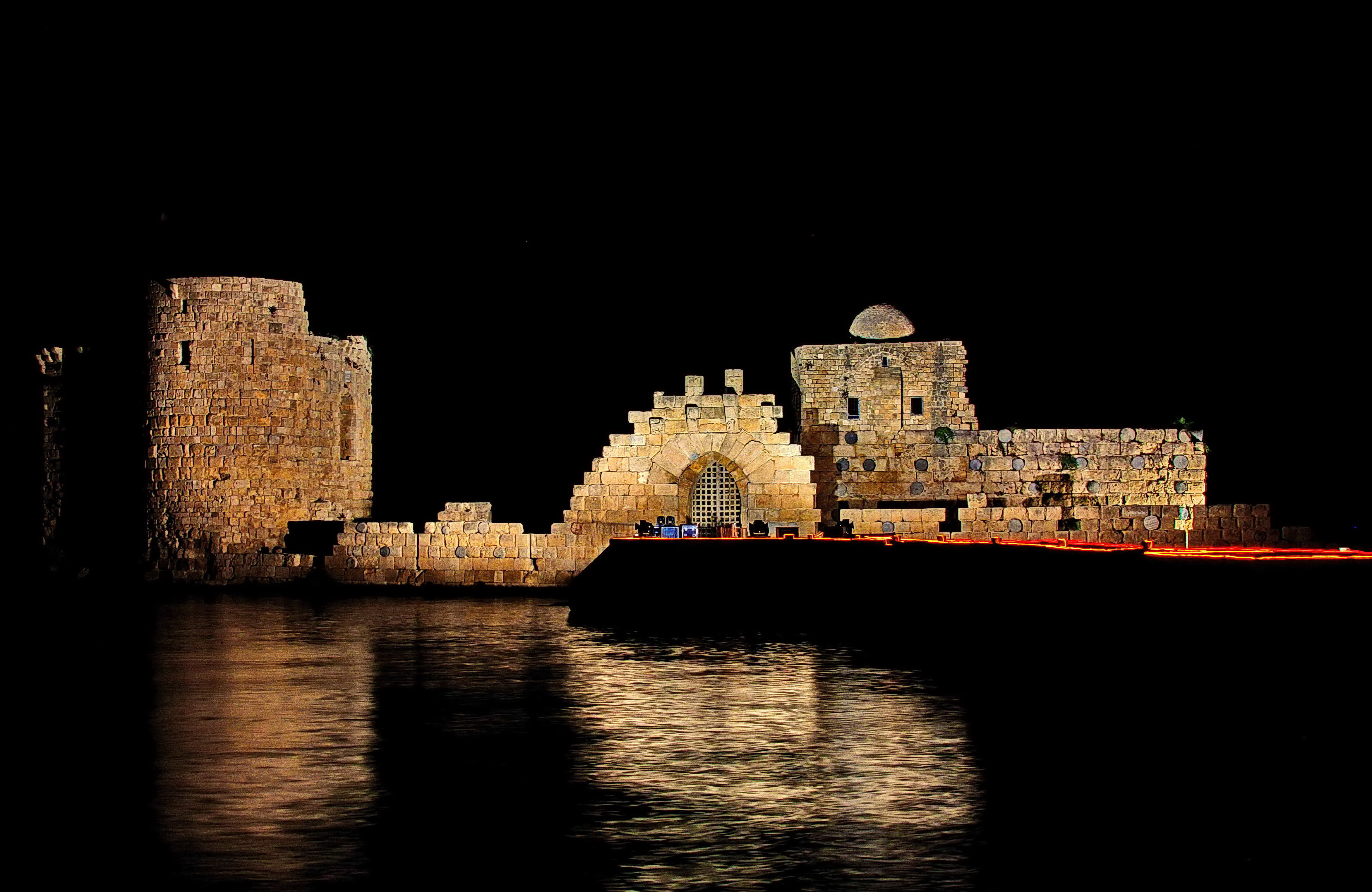 Night view of Sidon Sea Castle